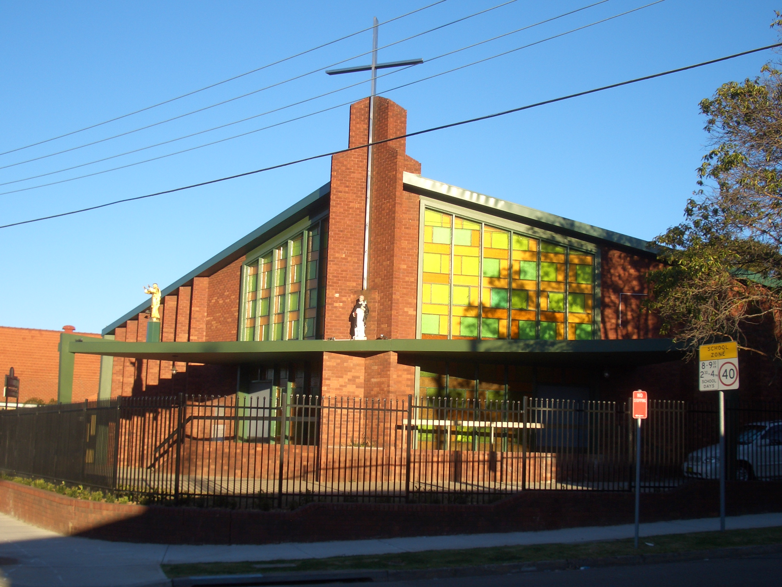 St Dominics Catholic Church, Homebush West, Sydney